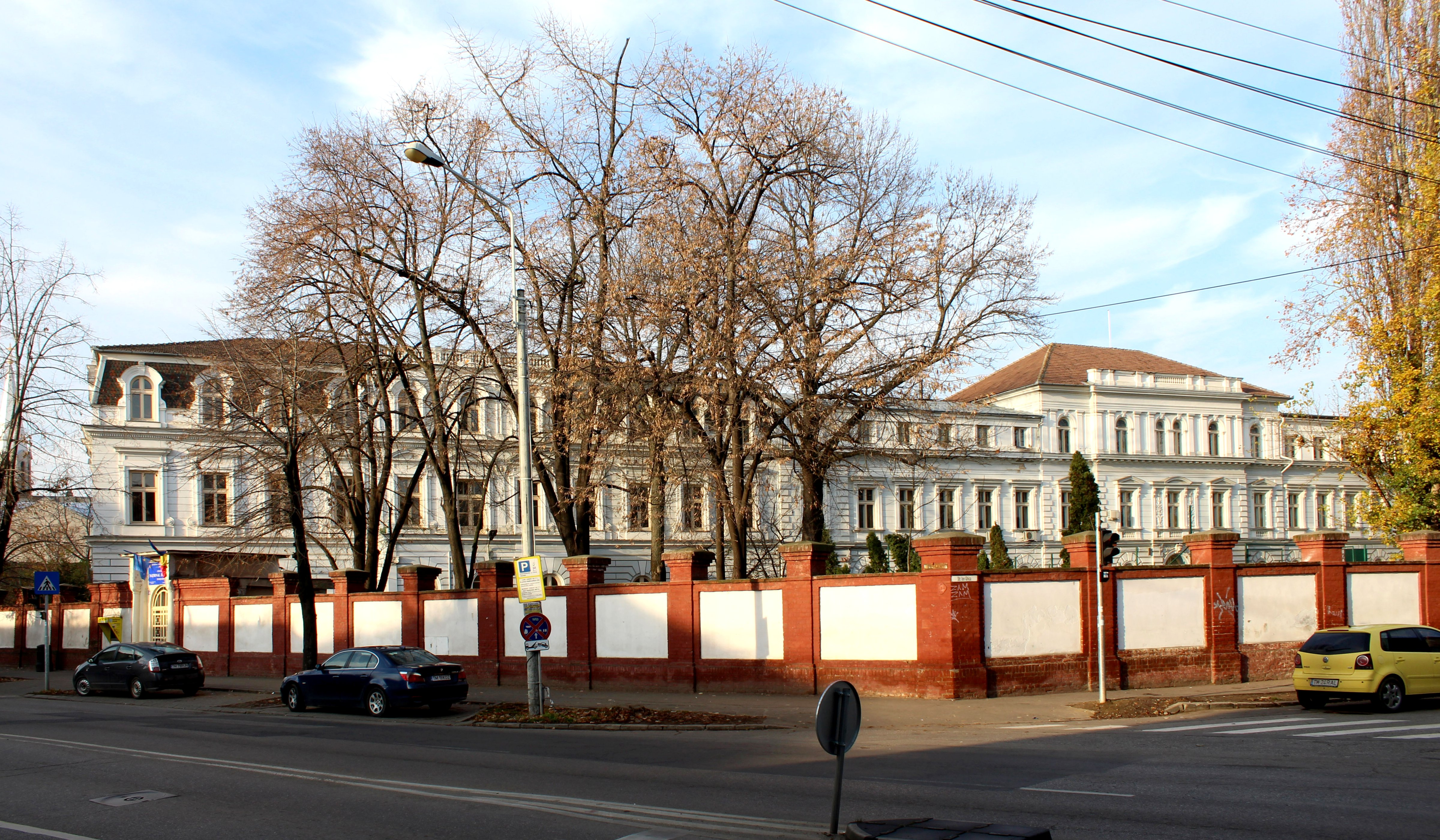 "National College of Banat" Highschool, Timișoara, Romania